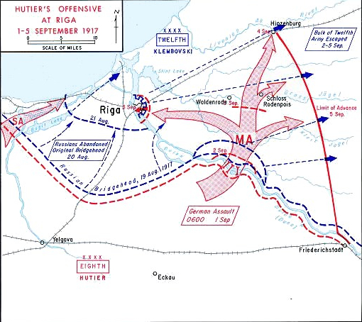 German offensive to capture Riga, 1st to 5th September 1917.